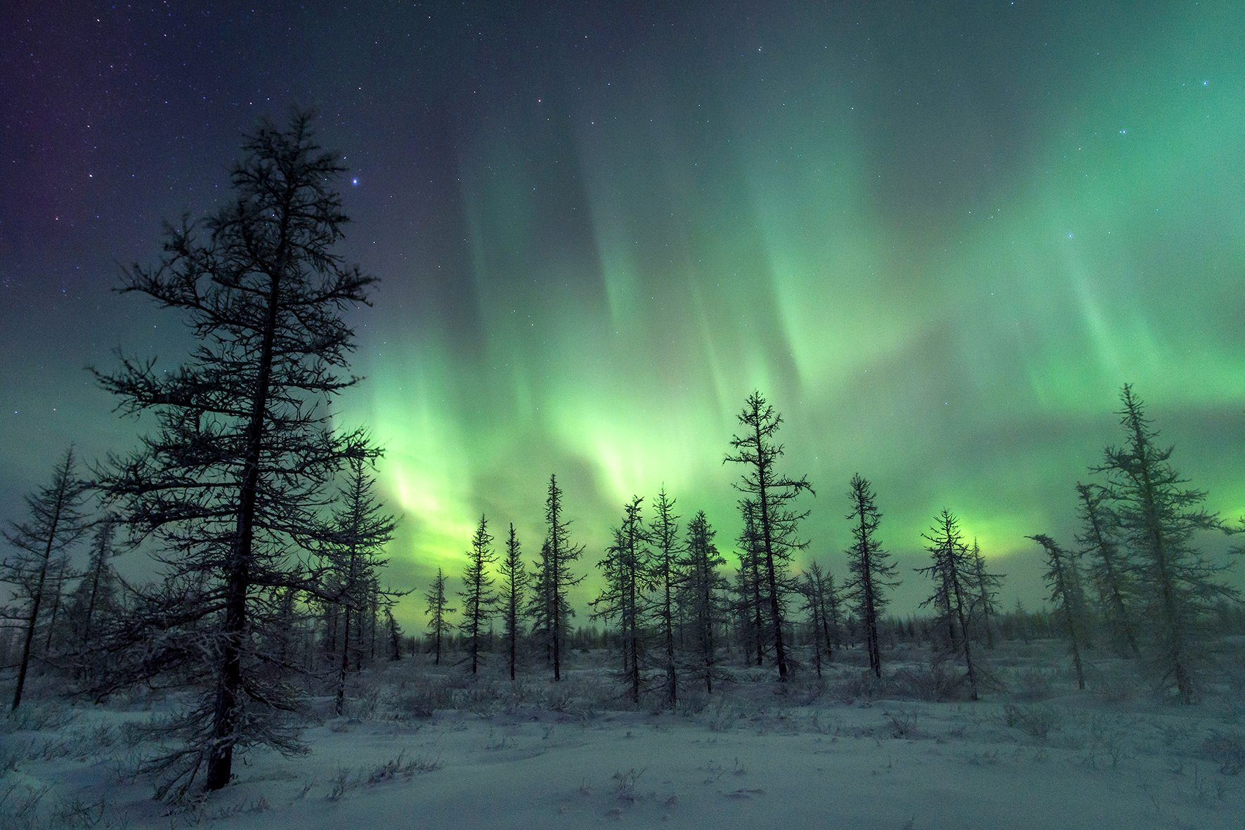 Aurora near Novy Urengoy